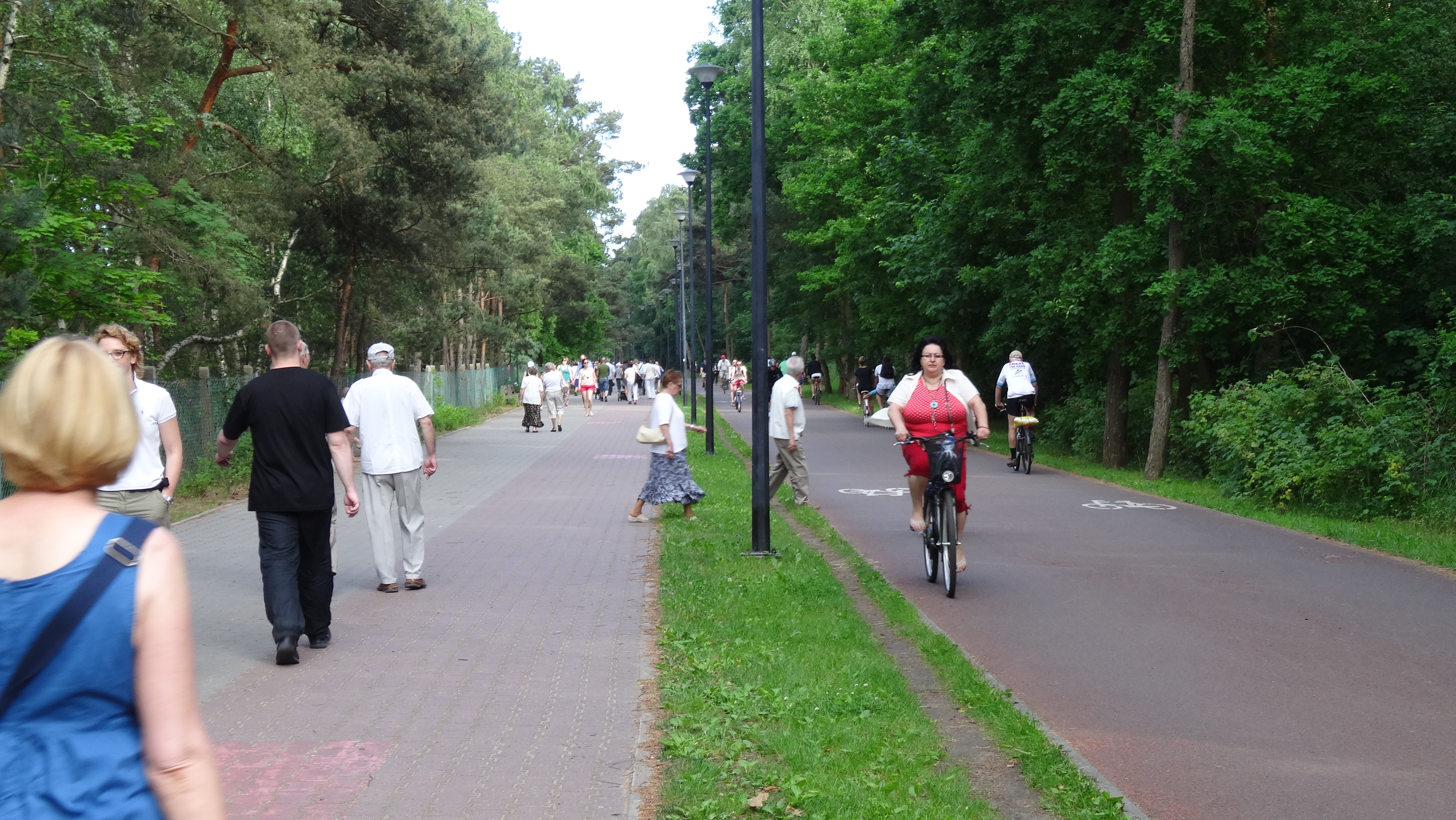 Gdansk, bicycle path along the seashore